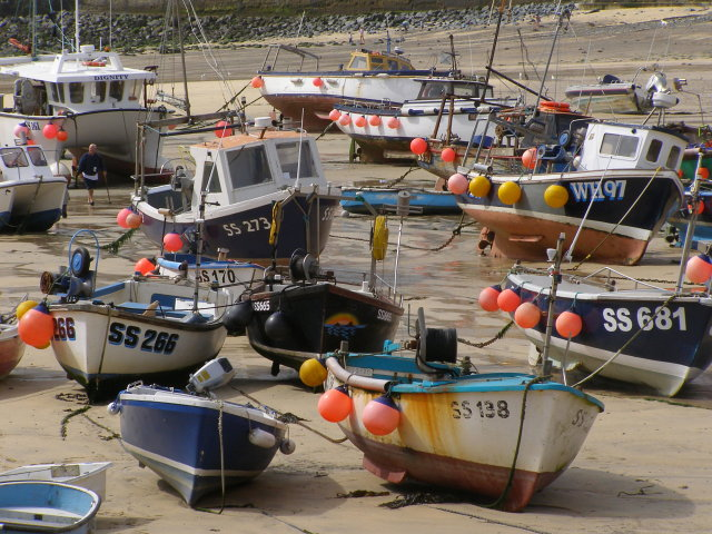 Boats at low tide, St Ives harbour At low tide the water completely exits the harbour, leaving these boats dry on the sand.